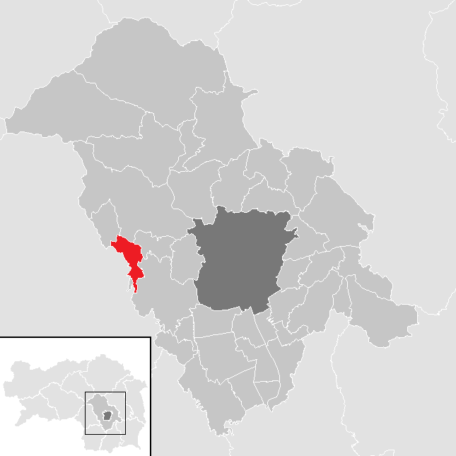 District Graz-Umgebung, Styria